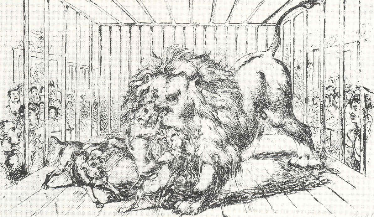 Title: The Fight between the Lion Wallace and the Dogs Tinker and Ball at Warwick Artist: Unknown Source: Pierce Egan's Anecdotes, London, en:1827